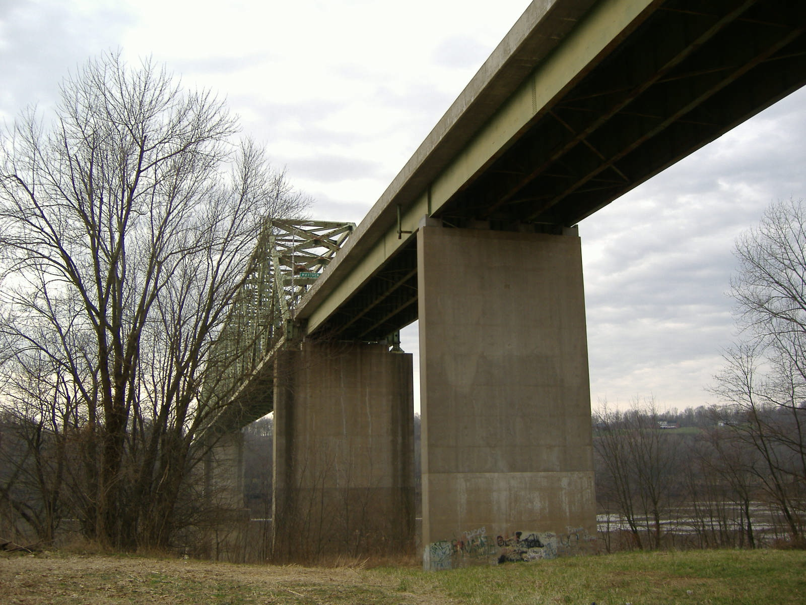 Picture of Matthew E. Welsh Bridge in Harrison County.